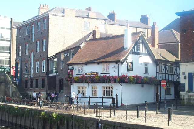 Kings Arms York